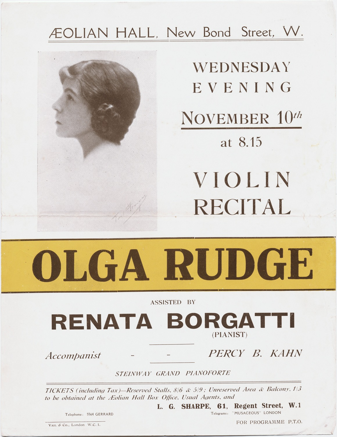 Advertisement for concert by violinist Olga Rudge and pianist Renata Borgatti, held at Aeolian Hall, London, November 10, 1920. For information on concert, see, e.g., Olga Rudge and Ezra Pound: "What thou lovest well-- " (2001), by Anne Conover Carson, pp. 45–46.